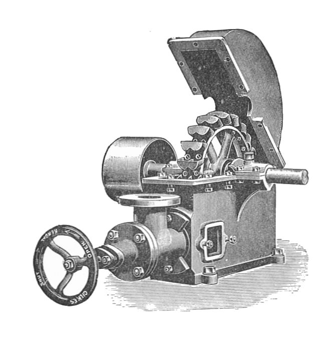 Pelton wheel water turbine (Rankin Kennedy, Electrical Installations, Vol III, 1903).jpgFig. 20 Pelton Wheel